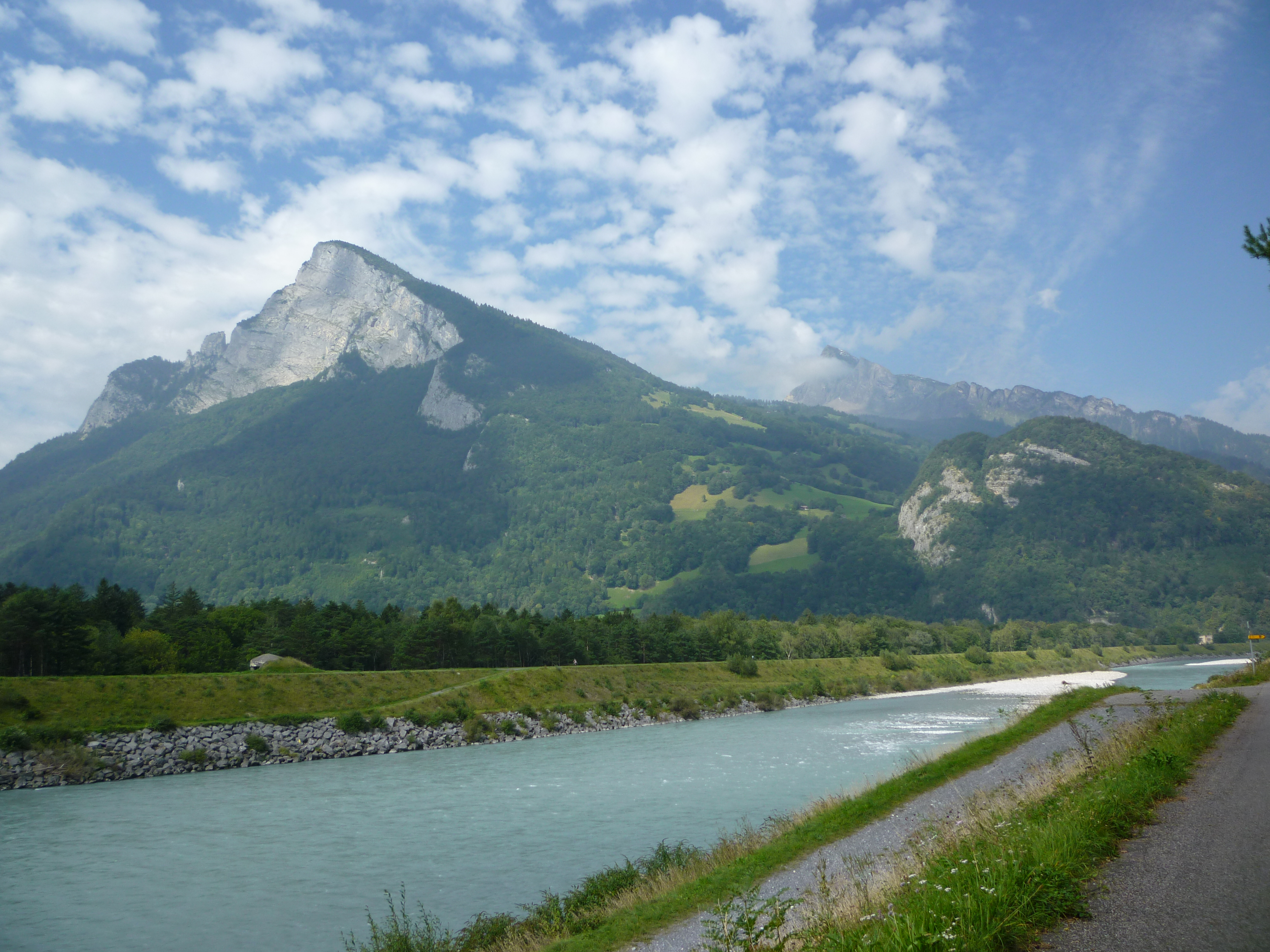 The Rhine in Balzers; view on the Gonzen